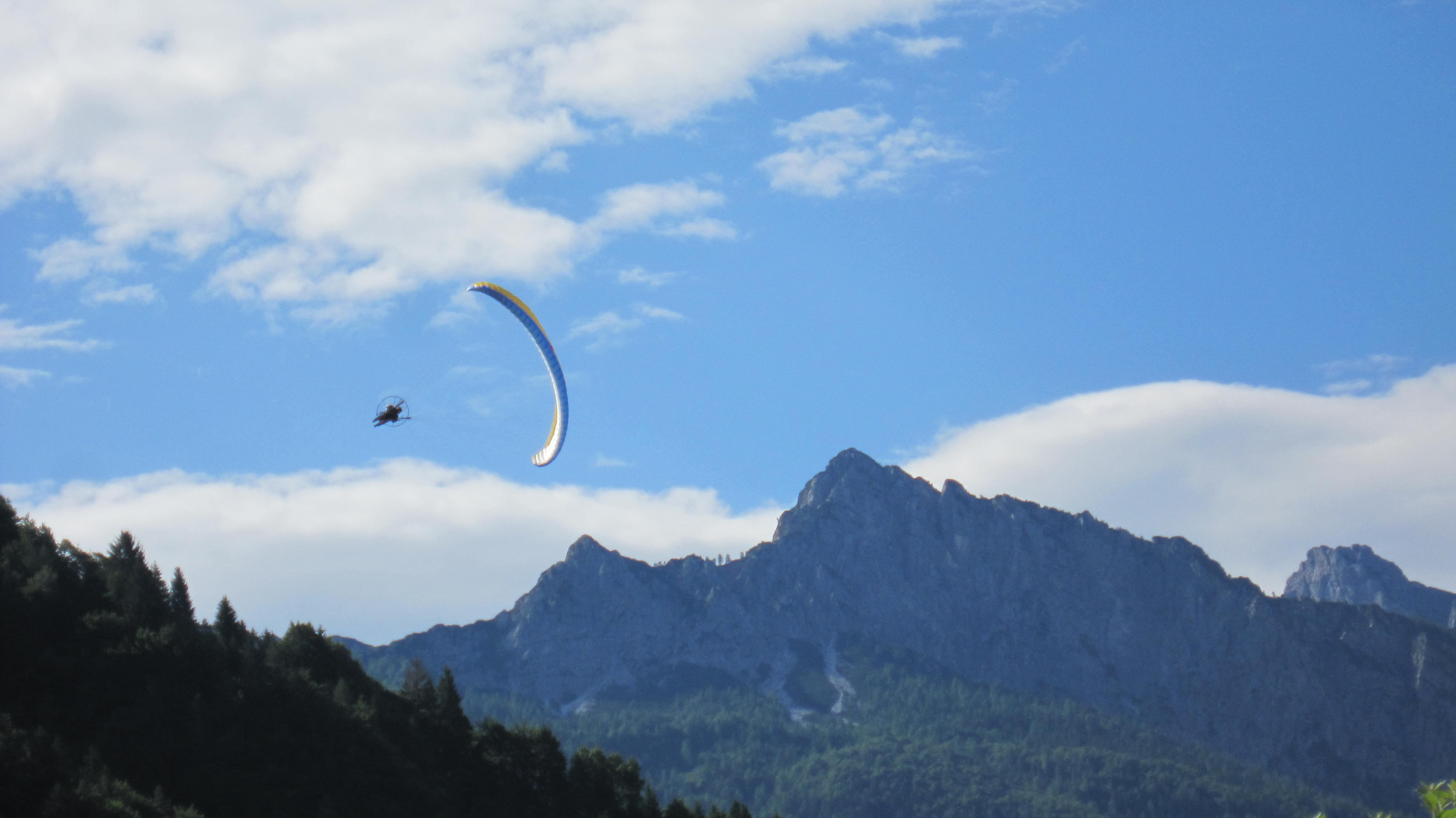 paularo parapendio